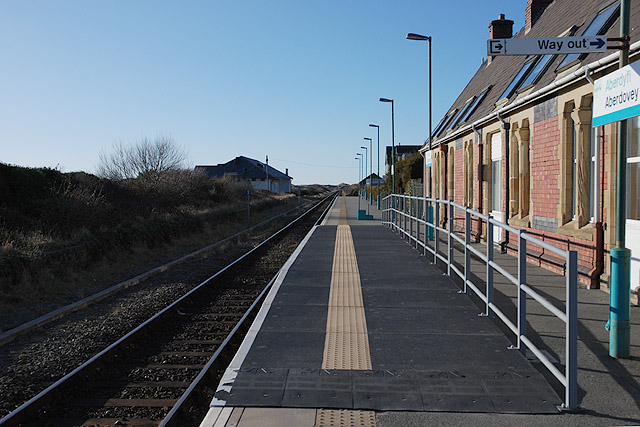 Raised platform at Aberdyfi station Platforms of the old Cambrian Railways tended to vary between being quite low and being very low; that at Aberdyfi was merely quite low, but low enough to give problems for many people in getting on and off. The recently devised solution is shown here; a prefabricated raised deck which is not that expensive to construct and is easy to install, and has the potential to solve similar problems elsewhere. See also Harrington Hump